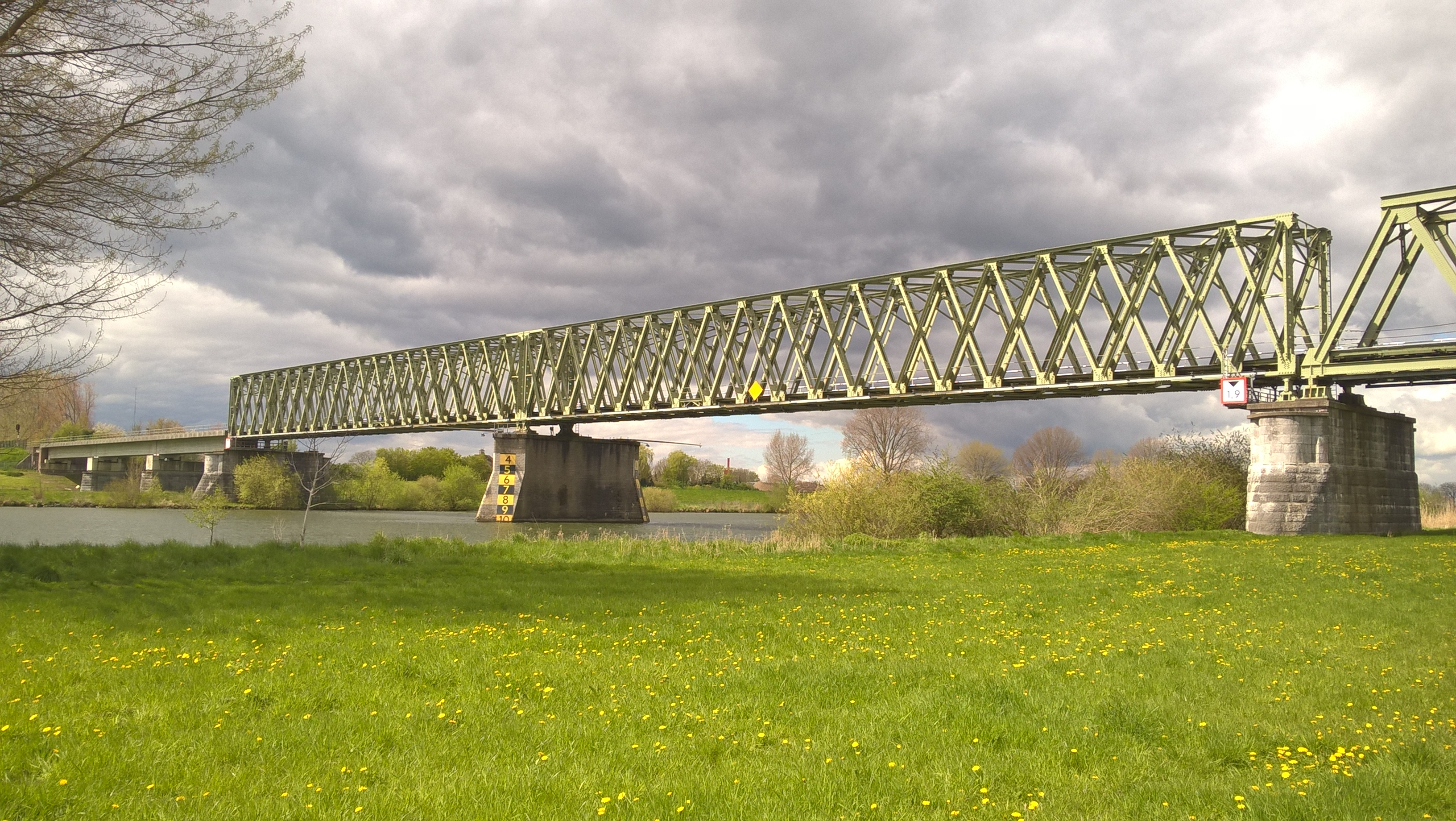 Railway bridge over the Meuse in the Netherlands